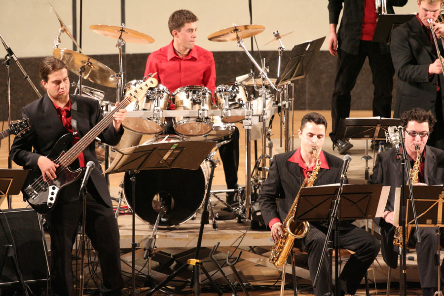 Big Band of the Munich University of Applied Sciences at Concert in the Great Hall of the Ludwig Maximilian University, Munich